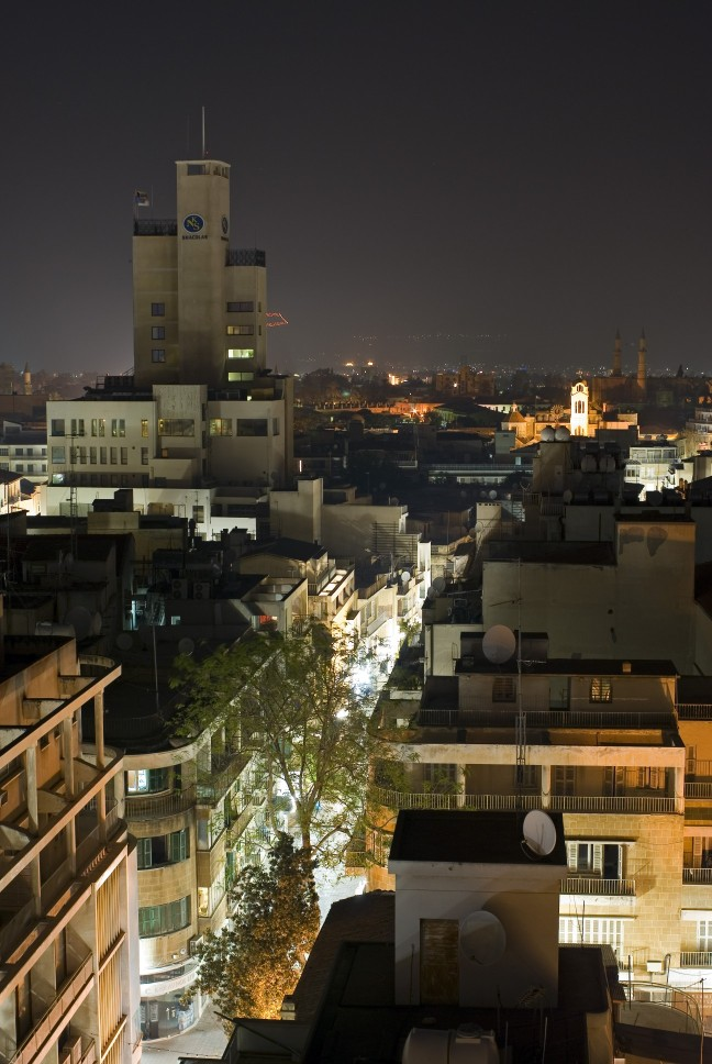 Nicosia skyline at night